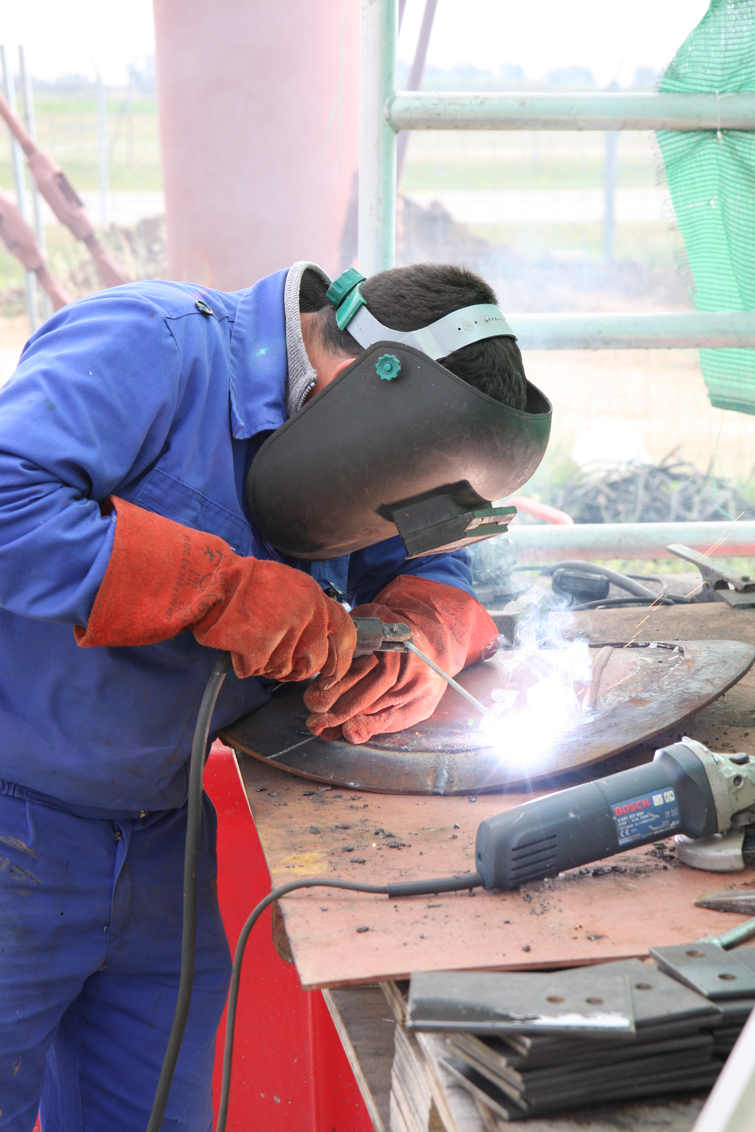 Sparks fly as a local welder on Morón Air Base in Southern Spain repairs damage to an elevated water tower on base. In addition to overseeing the safety and quality standards of the housing renovations on the installation, the U.S. Army Corps of Engineers Europe District provides engineering and safety support to the base on many other projects. (U.S. Army Corps of Engineers